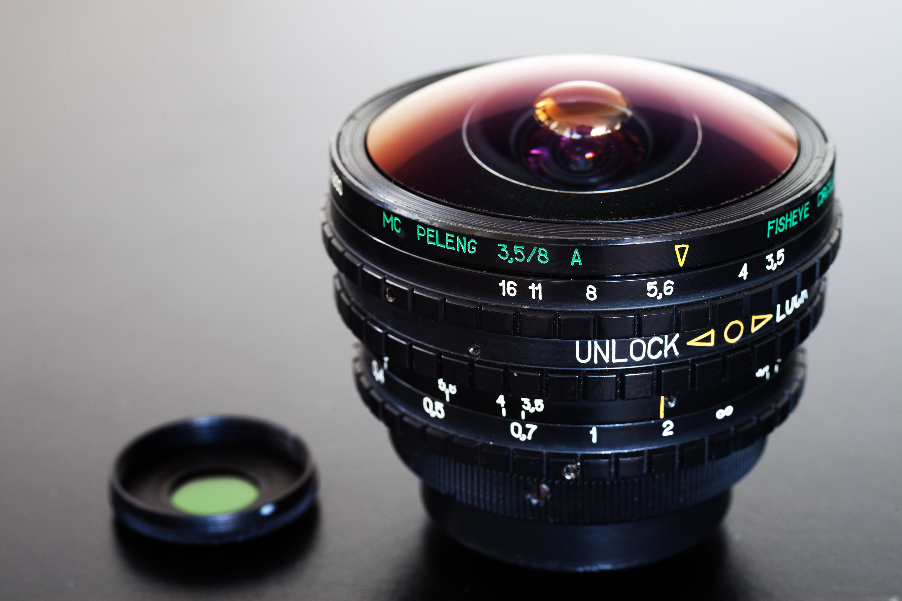 A Peleng 8mm fisheye lens, with one of the supplied colour filters.